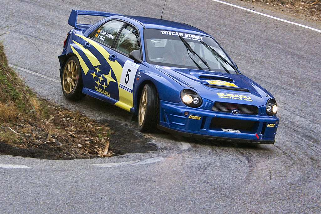 ESC.M.TERRASSA JOAN OLLÉ NICO DEL CORRAL